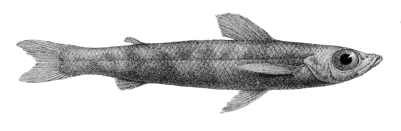 Chlorophthalmus agassizi